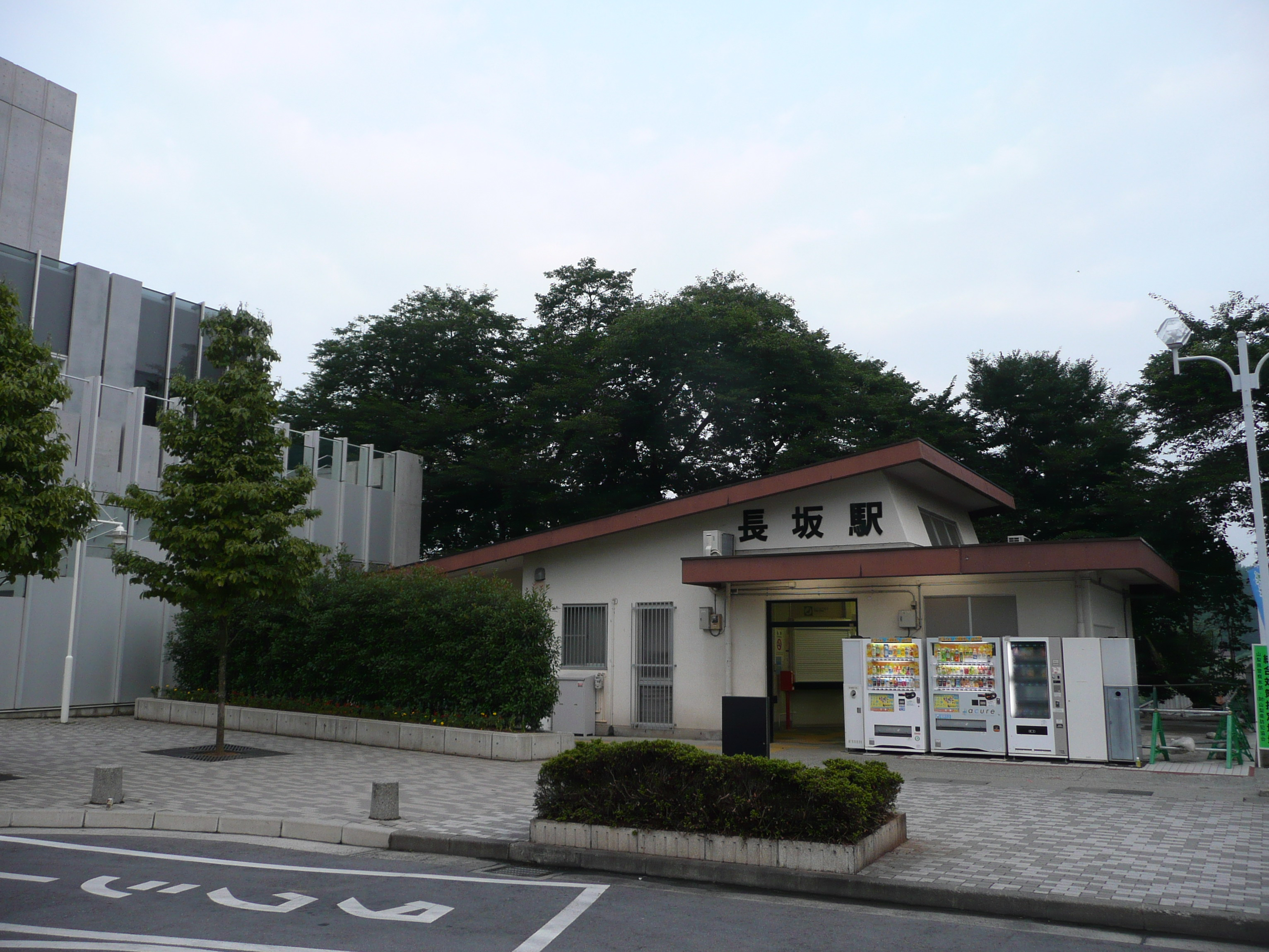 Nagasaka Station